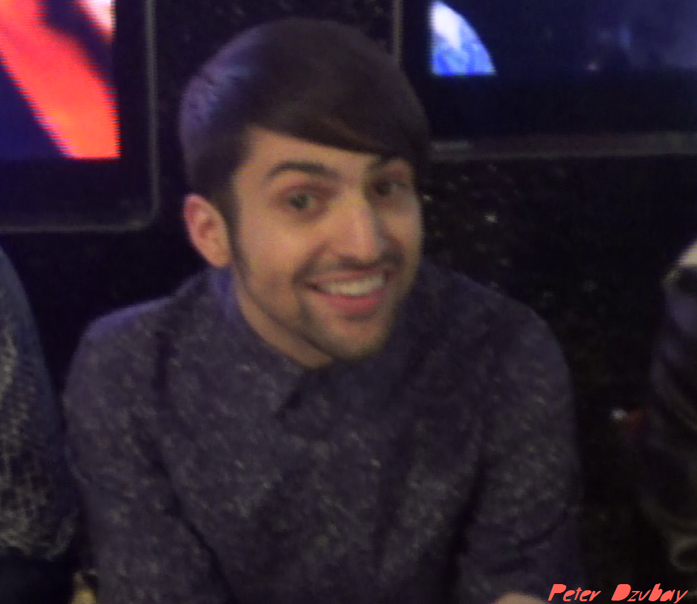 Mitch Grassi at a 2014 album signing of "That's Christmas to Me" by Pentatonix. PHOTO BY PETER DZUBAY